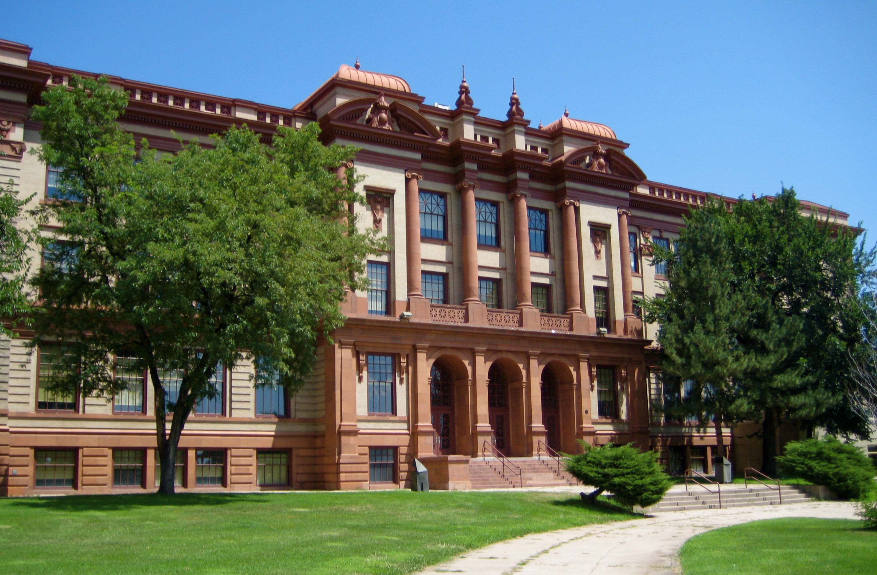 This is a photo of the front façade of Denver North High School in Denver, Colorado, USA. This historic high school was one of the first four in Denver, along with East, West, and South, all named according to the cardinal directions.